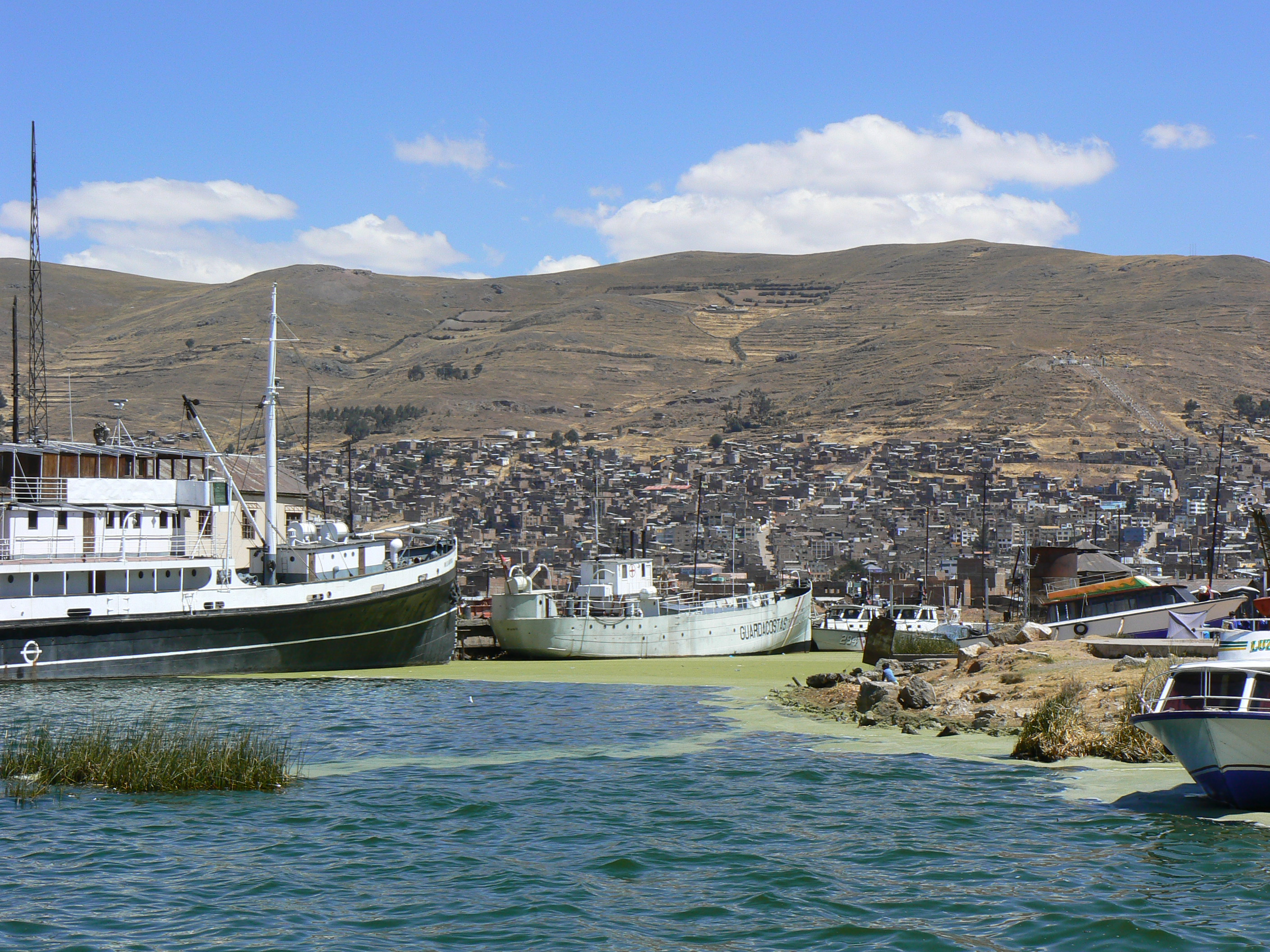 The port of Puno, Peru, on Lake Titicaca. On the left is the bow of the PeruRail passenger steamship SS Ollanta and ahead of her is the Peruvian Navy hospital steamship BAP Puno